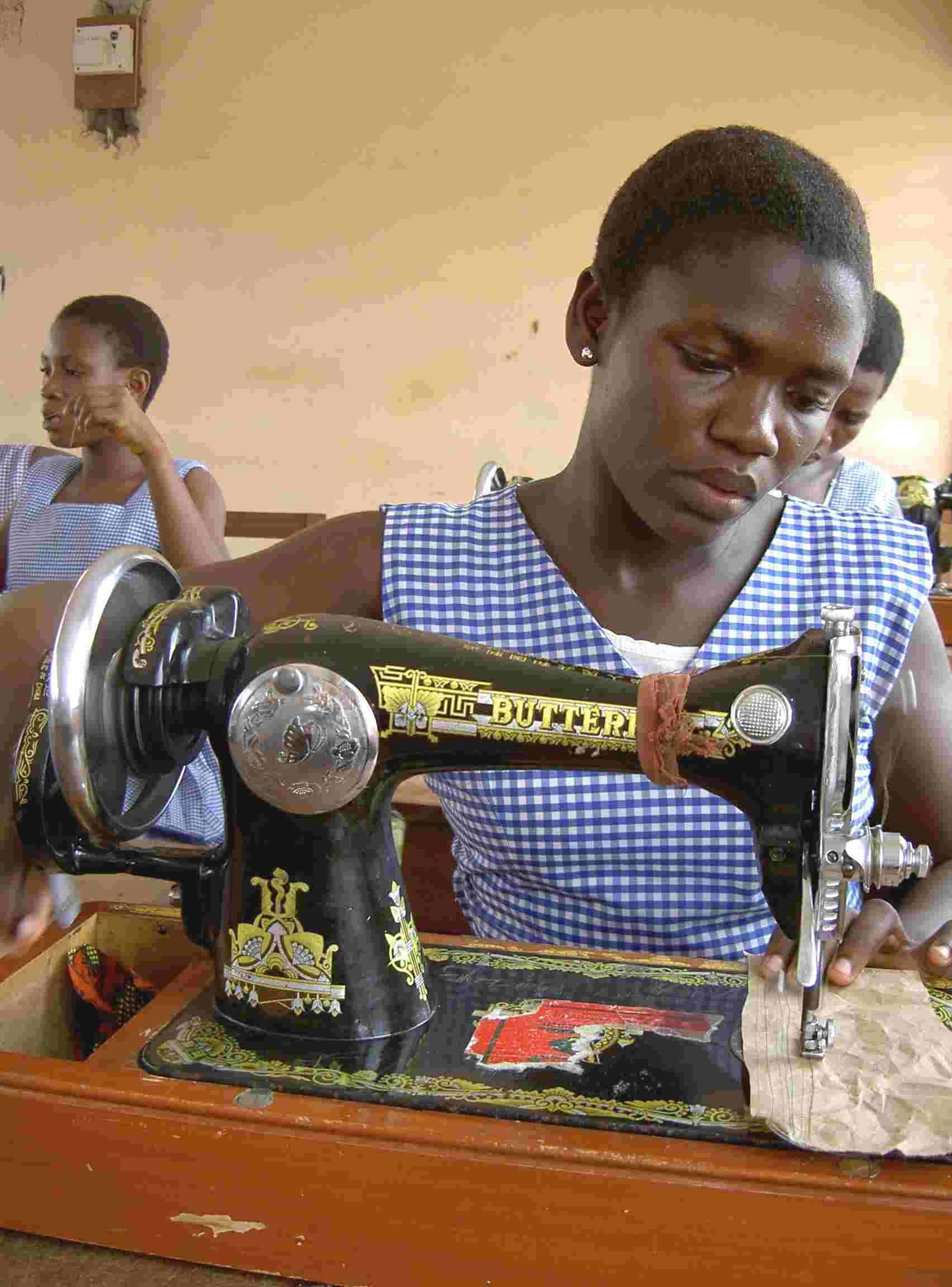 In the city of Nsawam there is the special " Dora-Project for young rural woman ". Here we see the " Textil-Group "